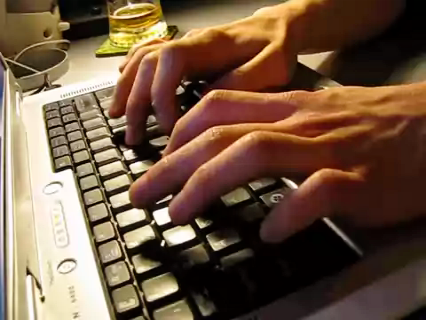 Video of typing on a laptop keyboard.